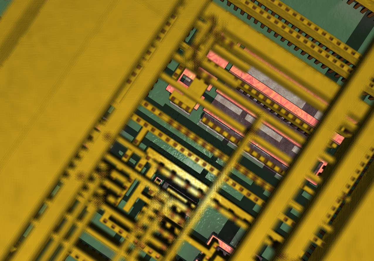 Detail of a standard cell, extracted and rendered by koala. I am the creator of the tool used to render this image, and also the author of the image. Similar, but copyrighted images may be found at